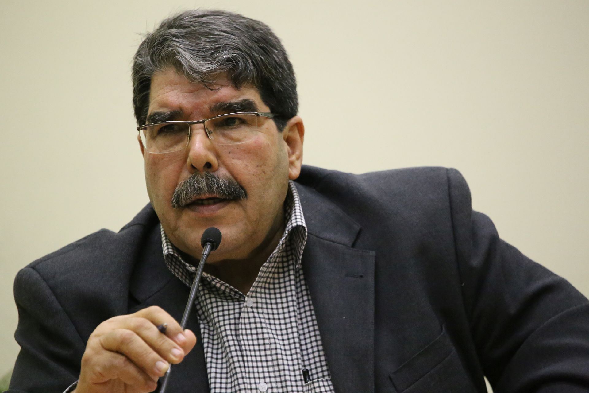 Kurdish leader Salih Muslim at Rosa Luxemburg Foundation in Berlin